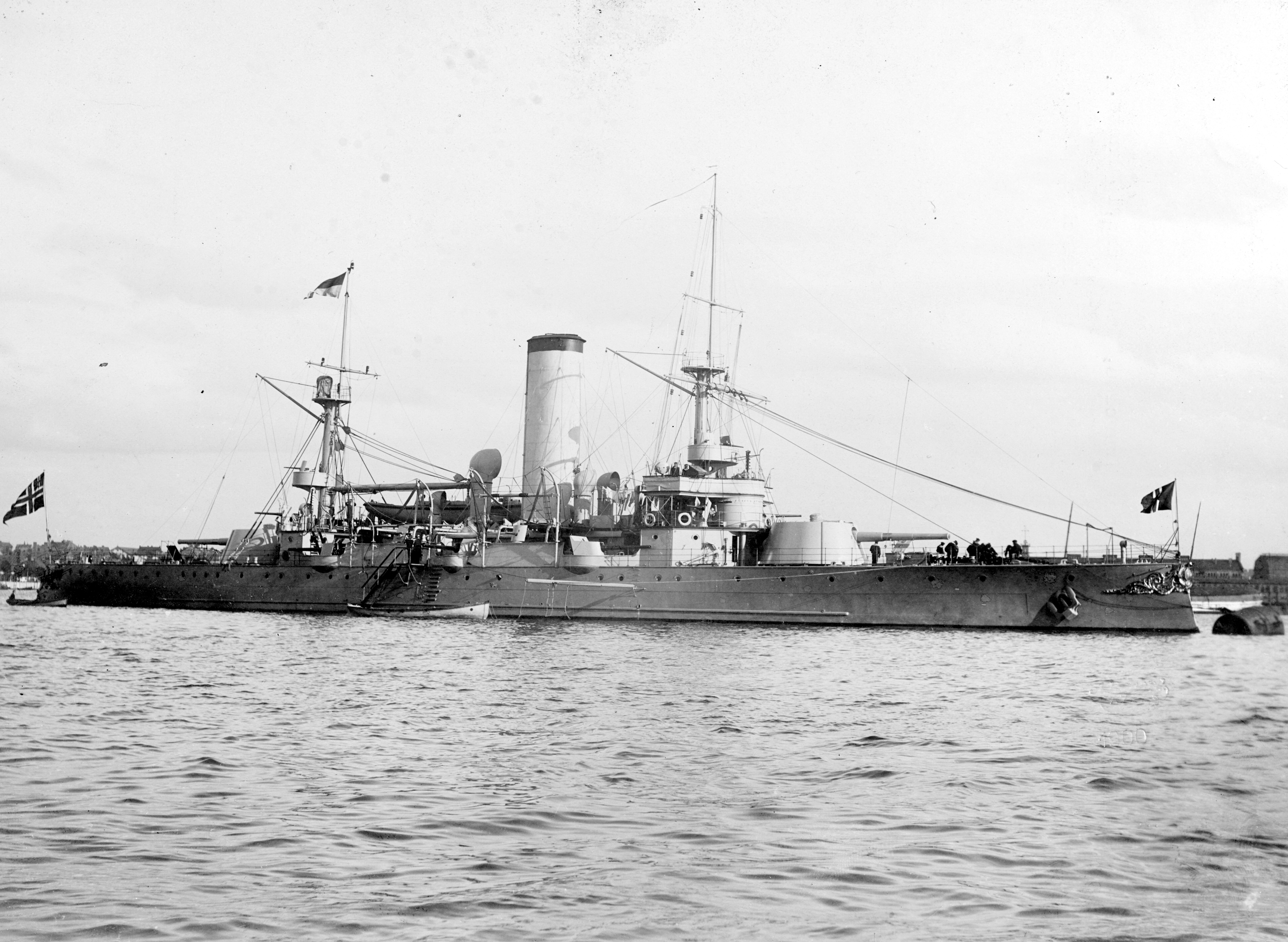 Norwegian coastal defence ship Tordenskjold (1897–1940), German antiaircraft ship Nymphe (1940–1945), scrapped in 1948